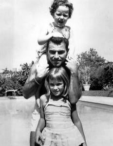 Photo of Rod Serling with his two daughters.